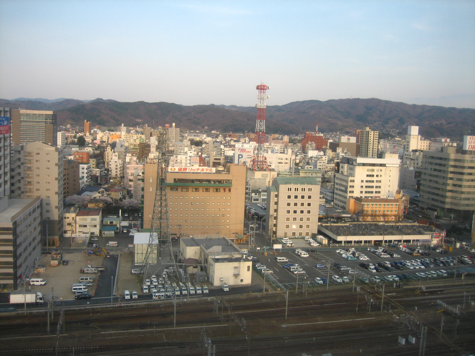 A picture of Fukushima city looking east over the Fukushima city train station. Image was taken with a Canon PowerShot SD450 Digital Elph camera and edited using a Paint Shop program on a laptop computer.